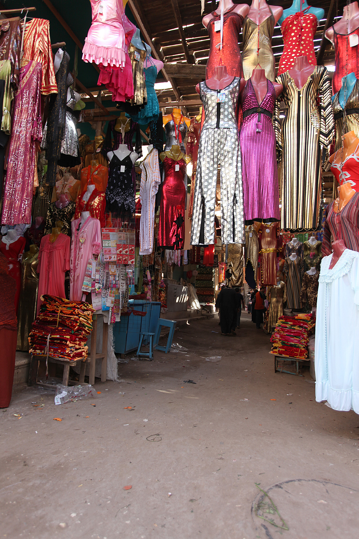 Suq (market) in the town of Girga